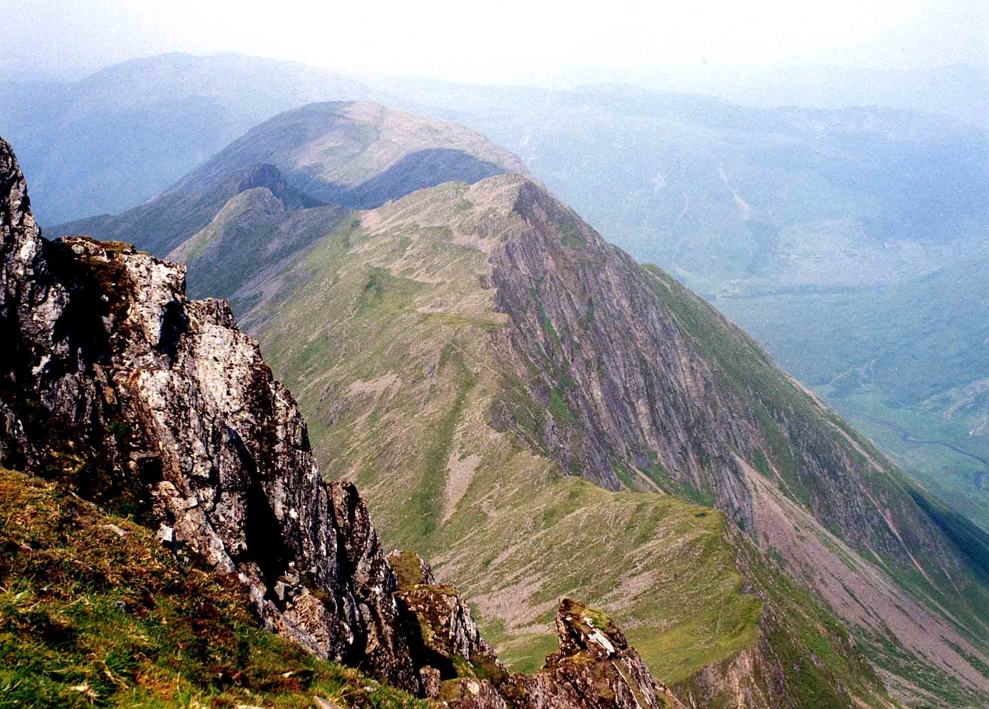 Personal picture taken by Mick Knapton